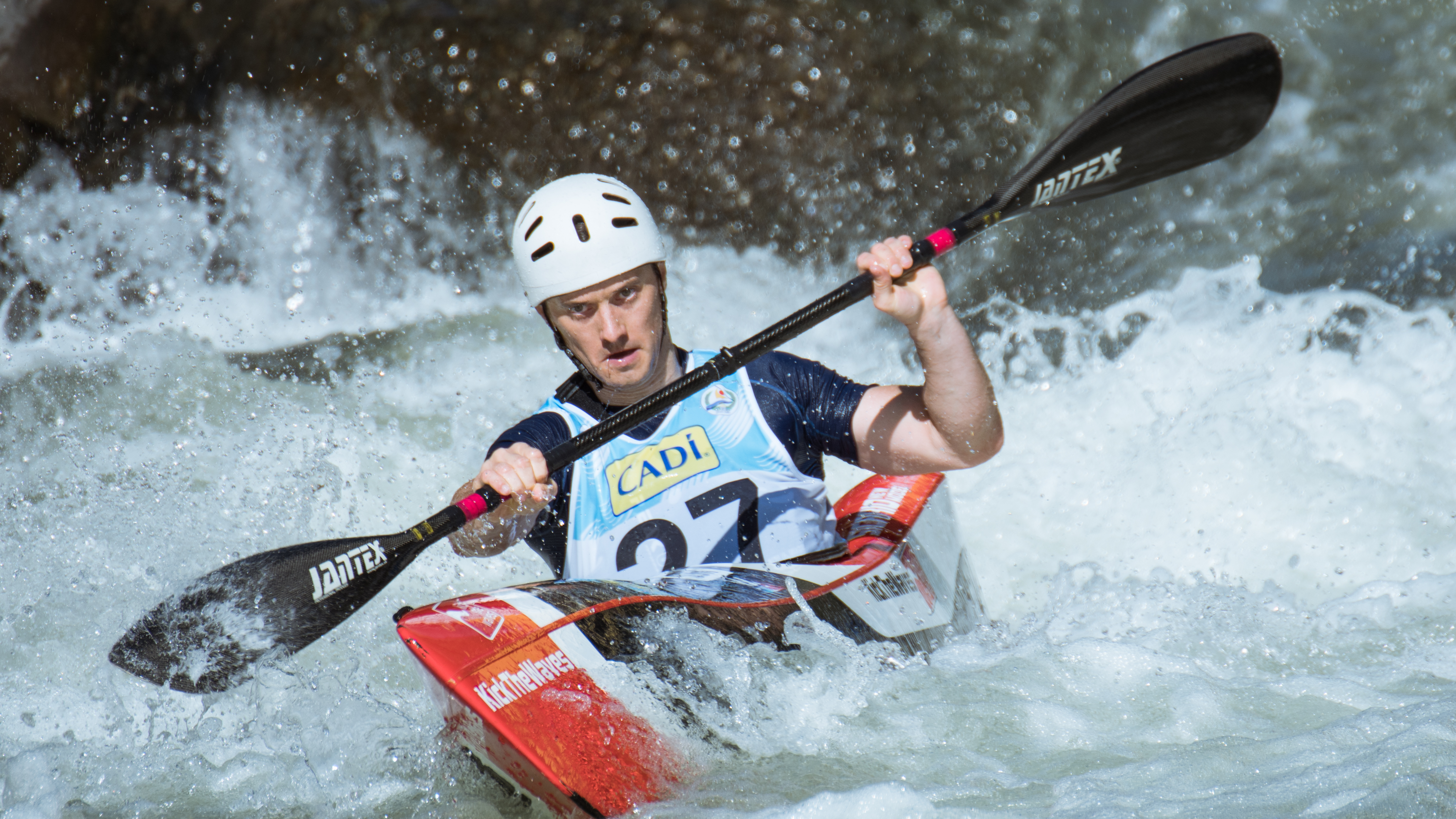 Ben Oakley during the 2019 Canoe Wildwater World Championships in La Seu d'Urgell, Spain.